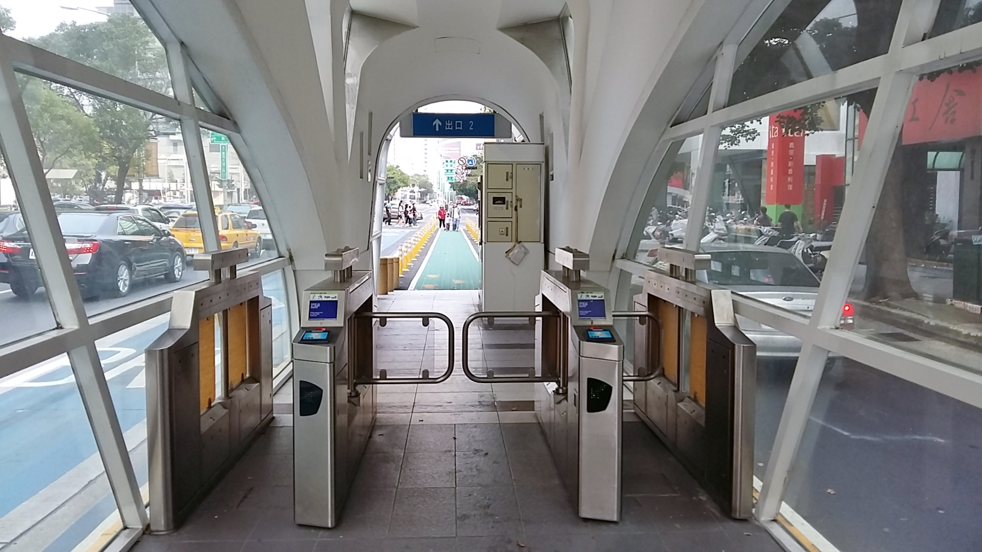 Taichung BRT Blue Line National Museum of Natural Science Station Exit2